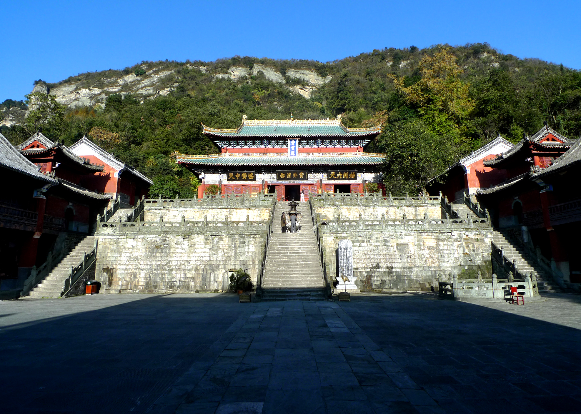 Purple Heaven Palace in Mount Wudang